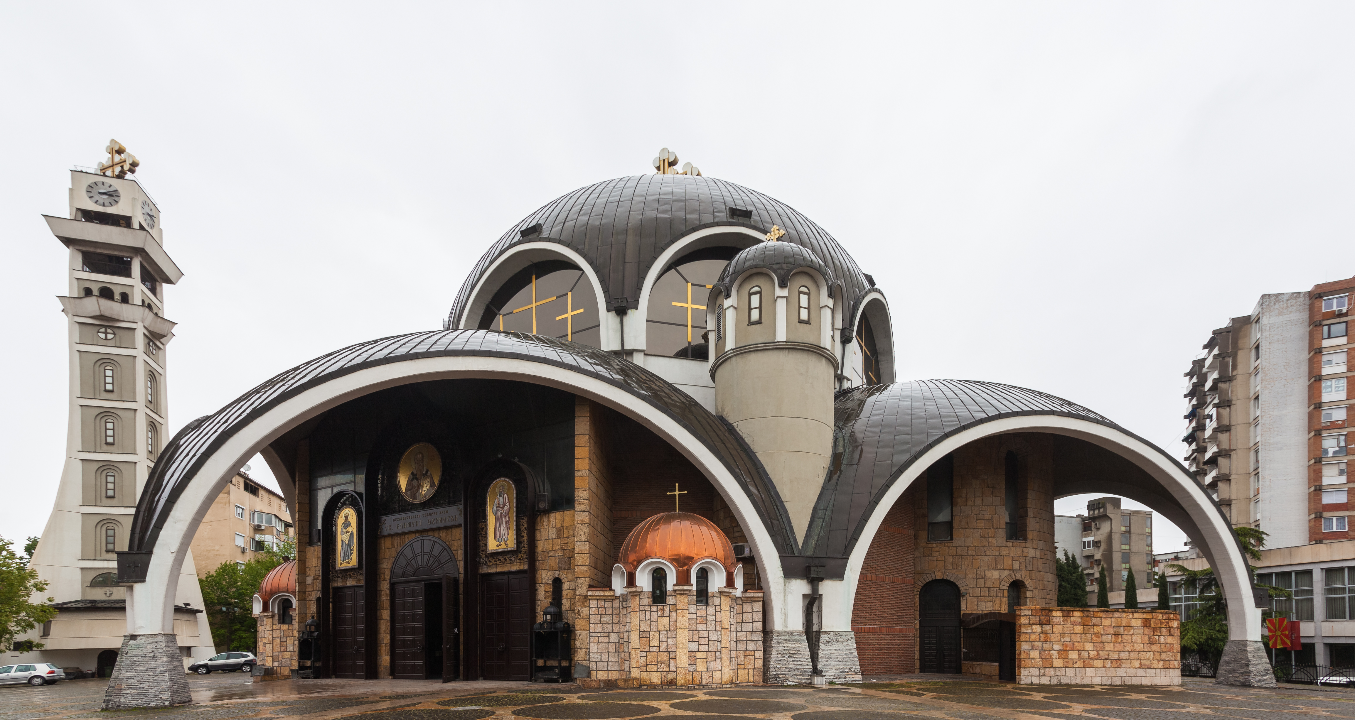 St. Clement Church, Skopje, Macedonia